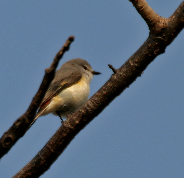 Small Minivet Pericrocotus cinnamomeus in Hyderabad, India.